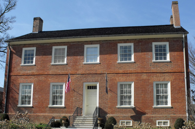 The first Kentucky governor's mansion. It was the governor's official residence from 1798 to 1914.